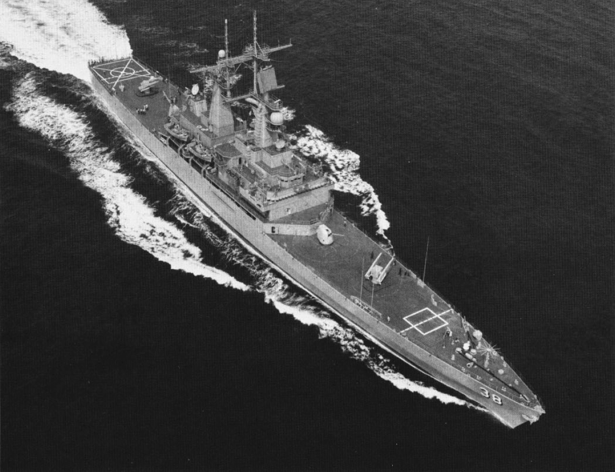 The U.S. Navy nuclear-powered guided missile cruiser USS Virginia (CGN-38) underway. The photo was taken between 1976 and 1984, before the addition of Phalanx CIWS and the Armoured Box Launchers for the Tomahawk cruise missiles.